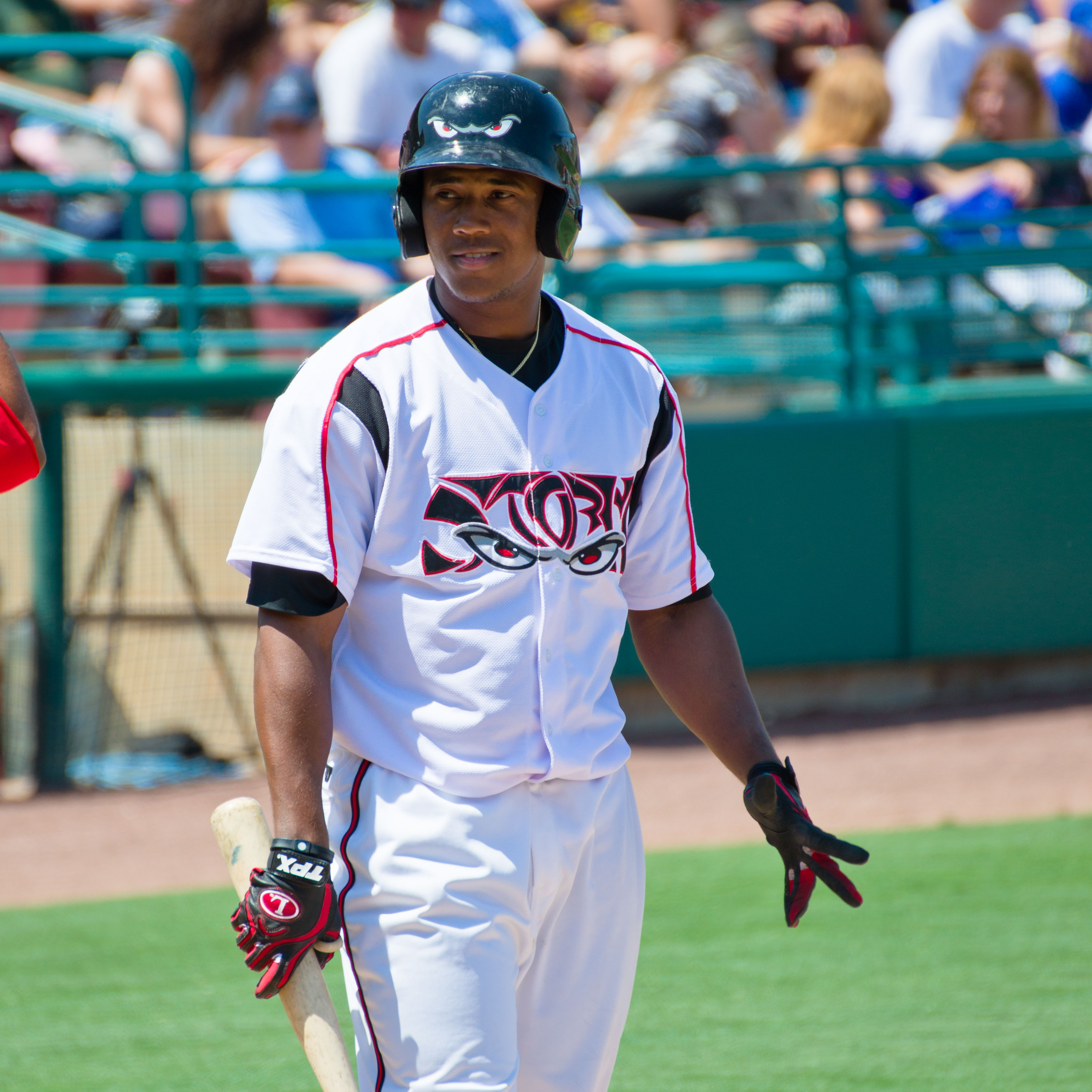 Rymer Liriano of the Lake Elsinore Storm, minor league baseball player in San Diego Padres farm system 2012